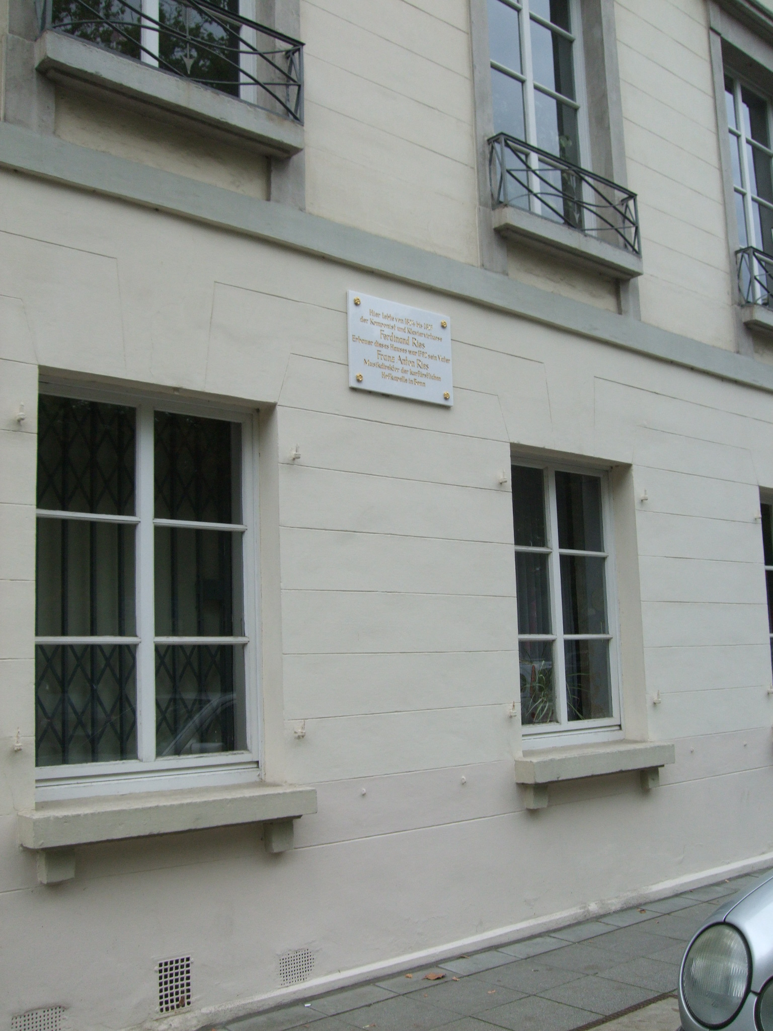 Ries's house and Plaque, Bad Godesberg, German